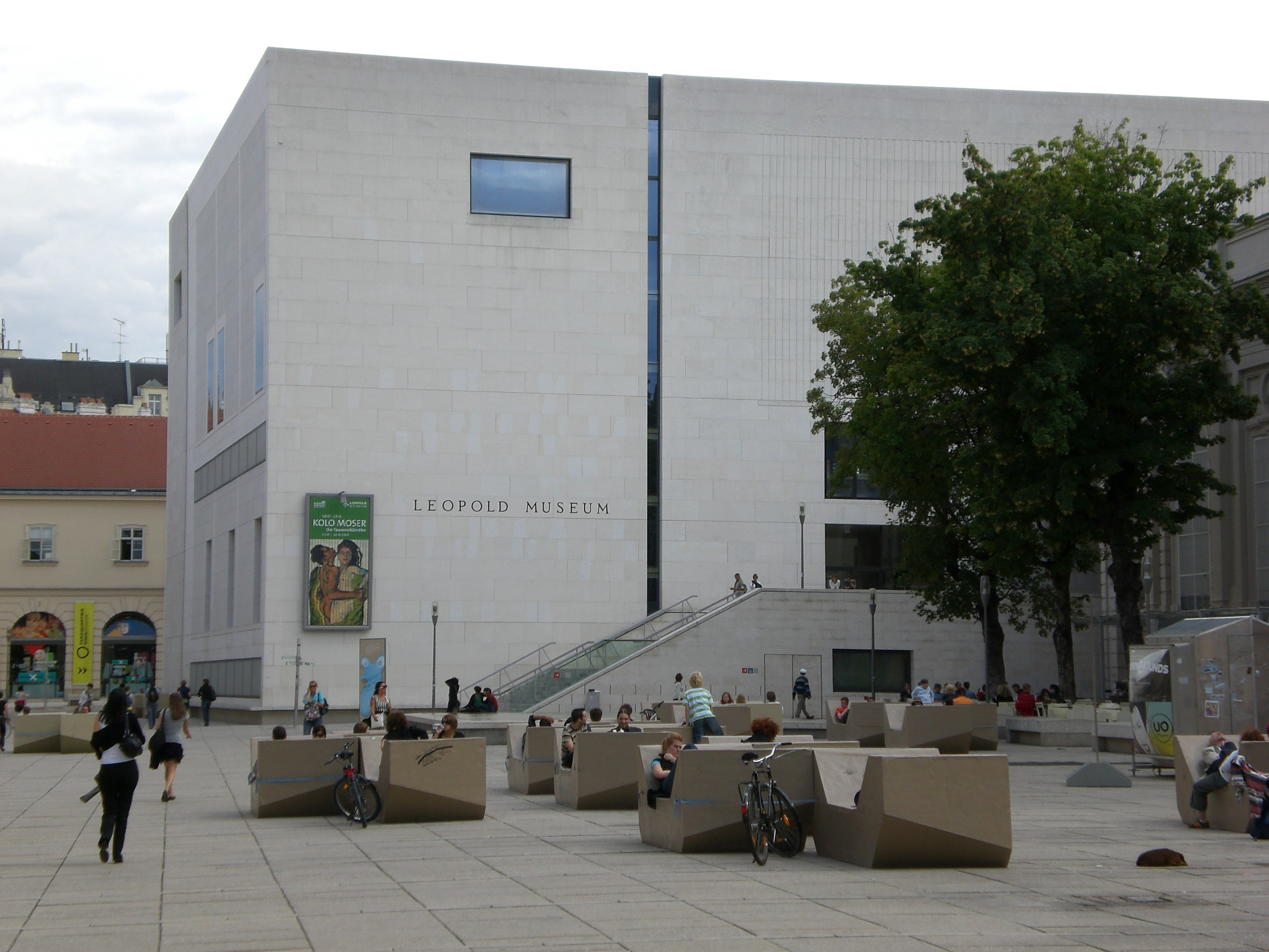 Austria, Vienna, Leopold Museum